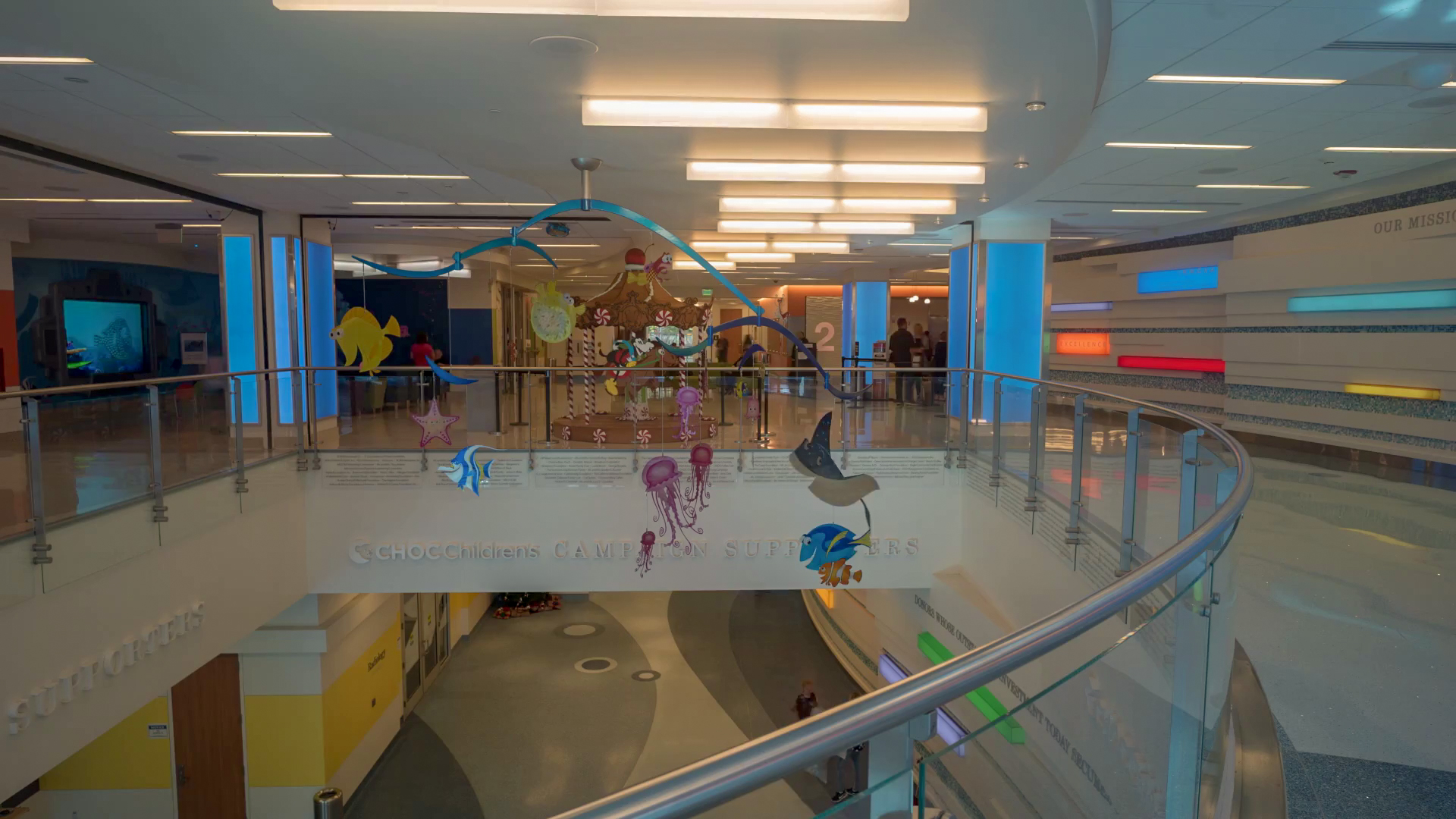 Lobby of the Children's Hospital of Orange County. Lighting adjusted from original.